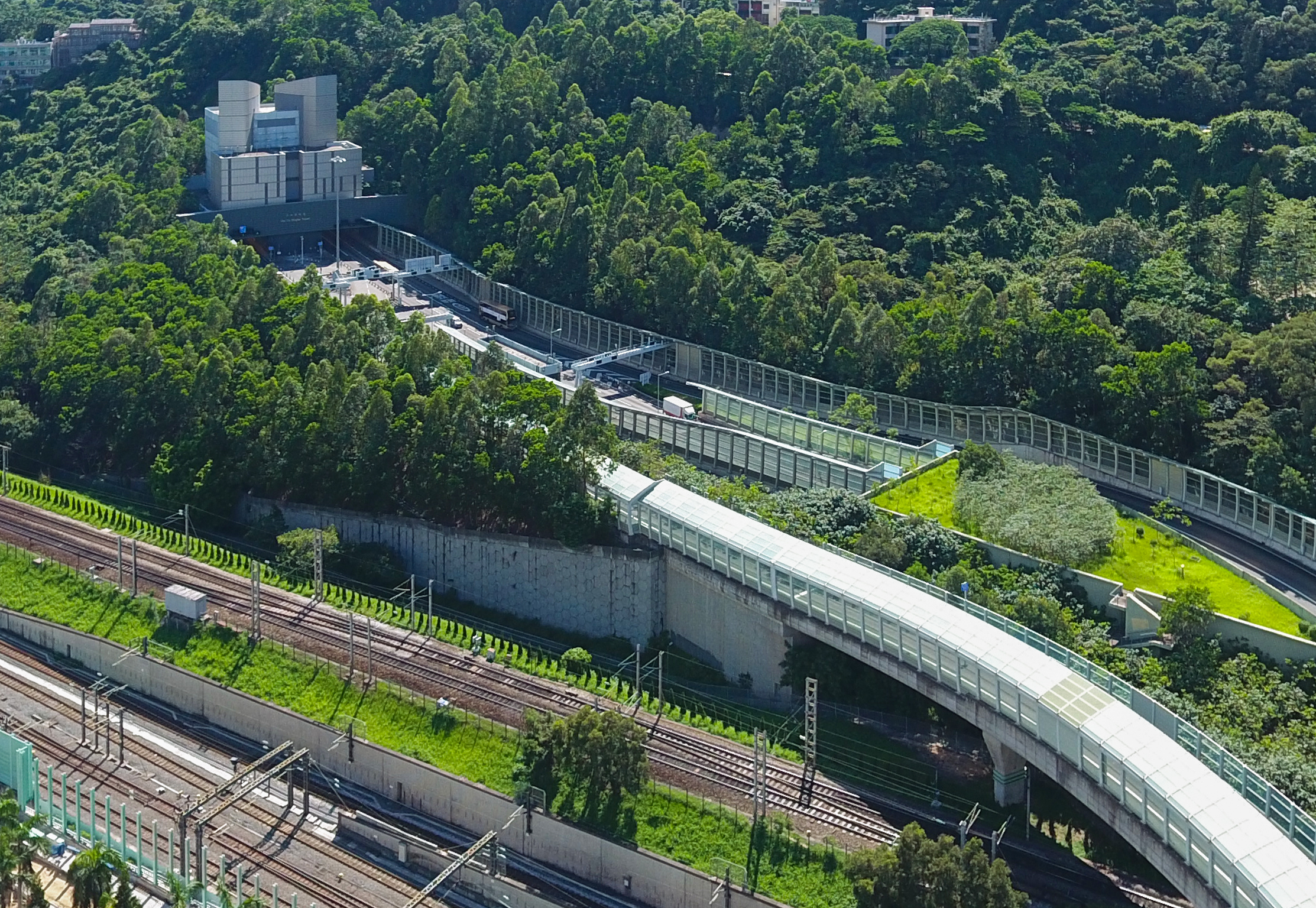 Sha Tin Heights Tunnel